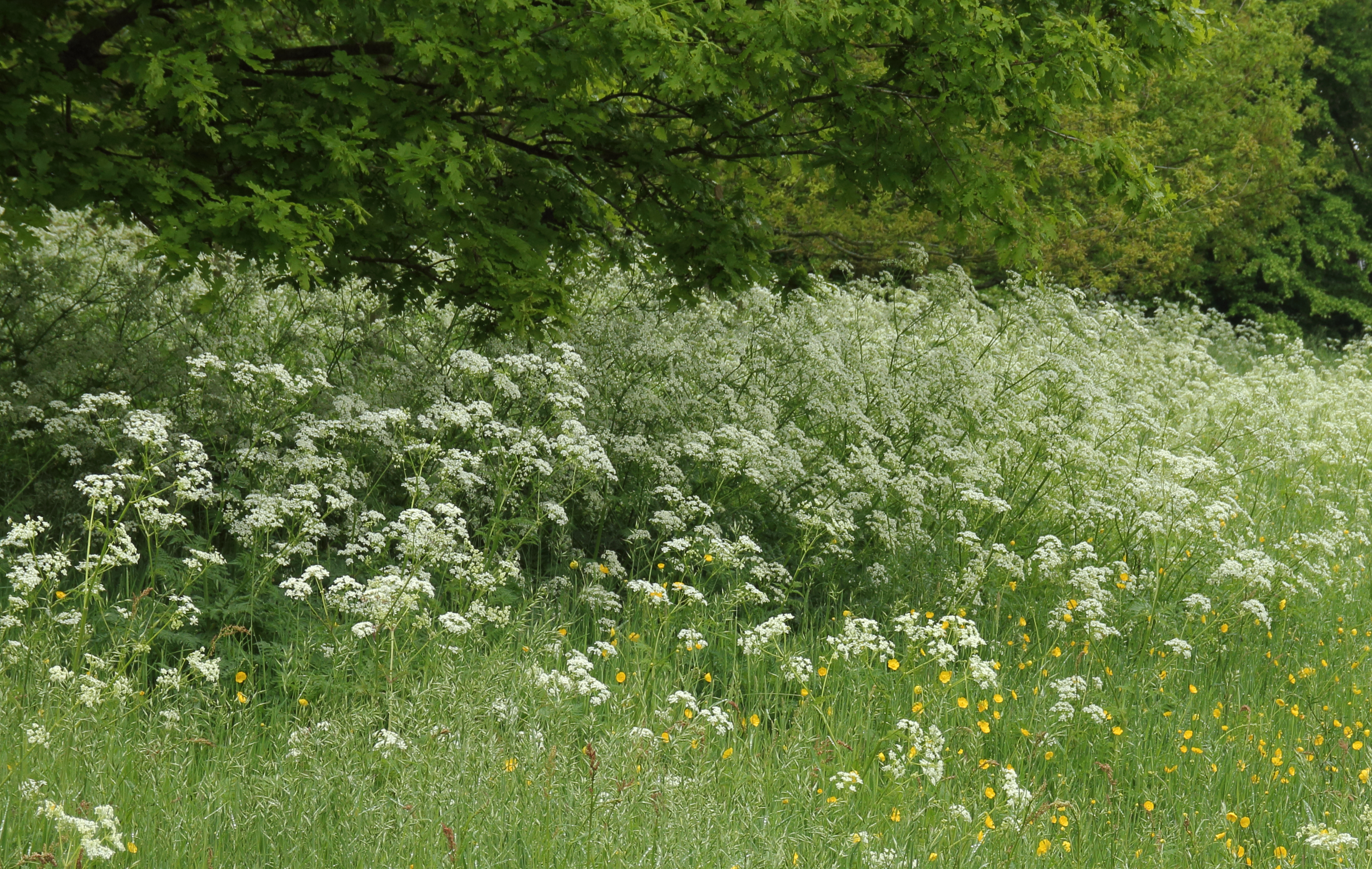 Anthriscus sylvestris on the edge of trees.